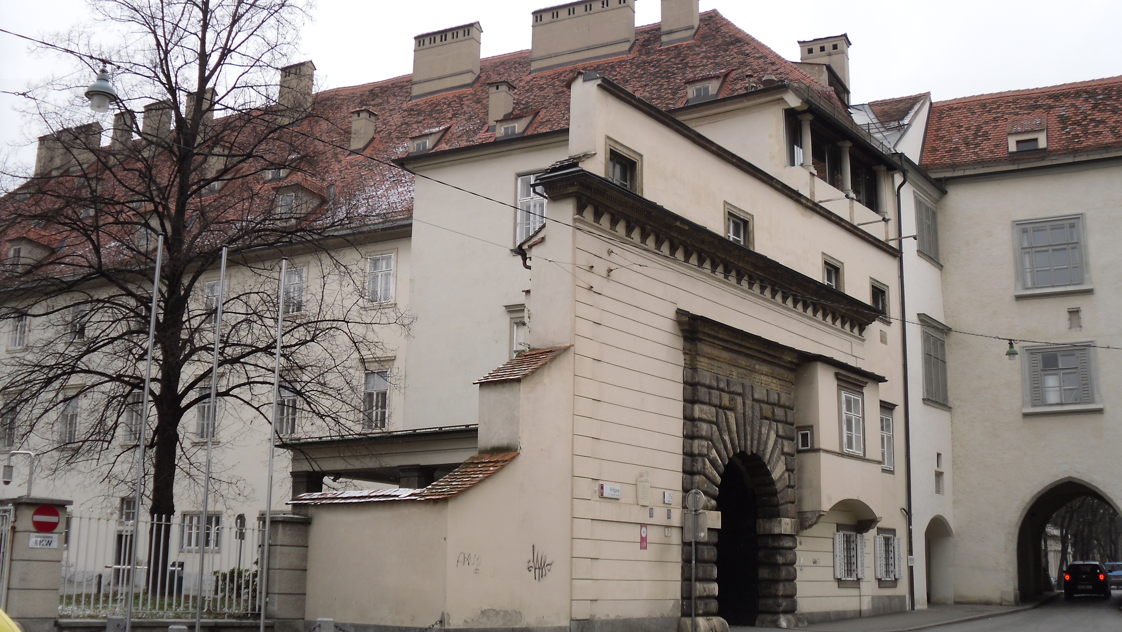 Graz Castle (Seat of the styrian government) Graz/Styria/Austria